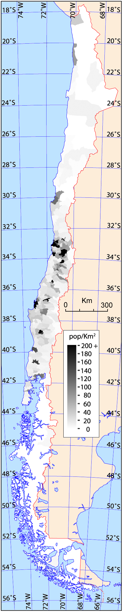 Map of Chile population density by comuna. Based on 2002 national census data.